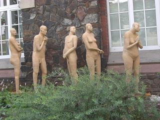 Sculptures on the Rhineland-Palatinate Garden Show 2008 in Bingen (Germany)